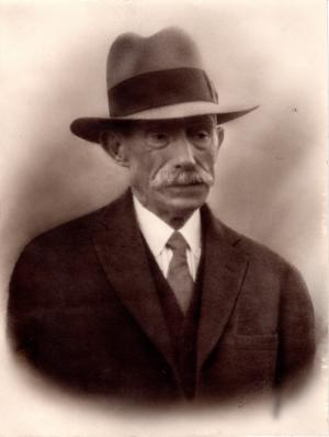 Josep Elias Basca